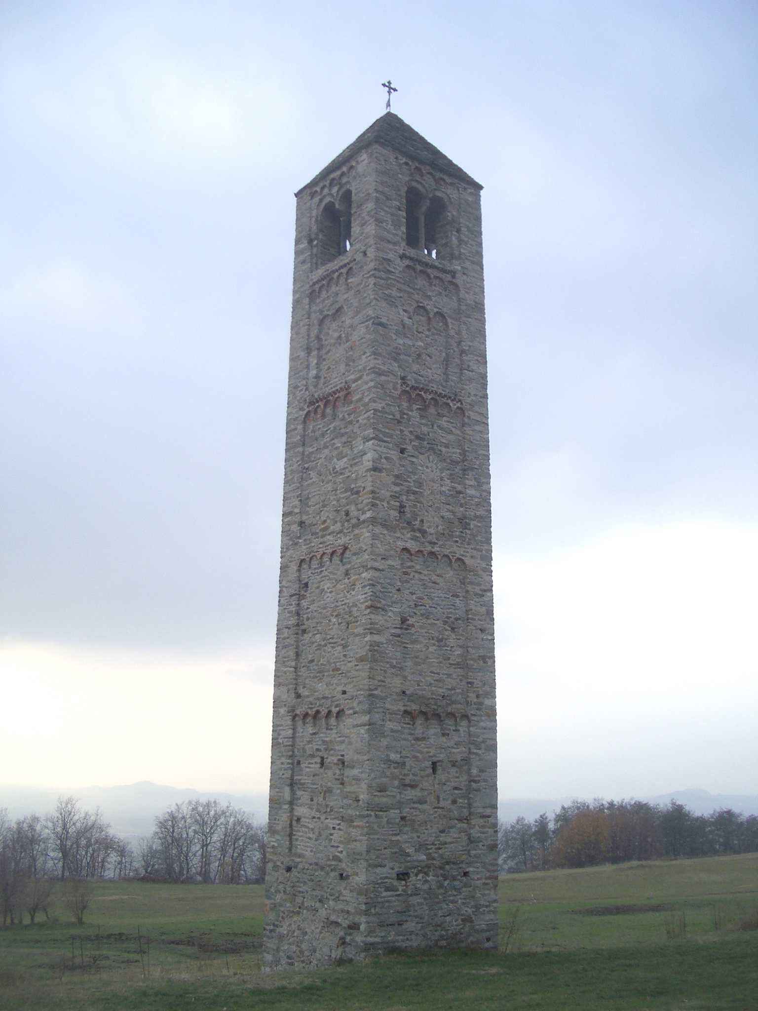 Romanesque clock tower (populary called ciocaron), Fraz. Perno, Bollengo, Turin, Italy